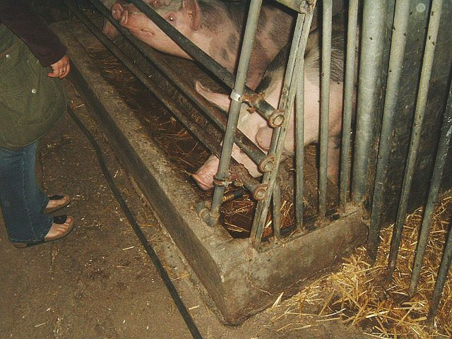 drinking installation for pigs. While touching with the mouth, the water runs out. In a stable in Frankfurt-Harheim. self made on June 4, 2006 --Peng 12:18, 5 June 2006 (UTC)